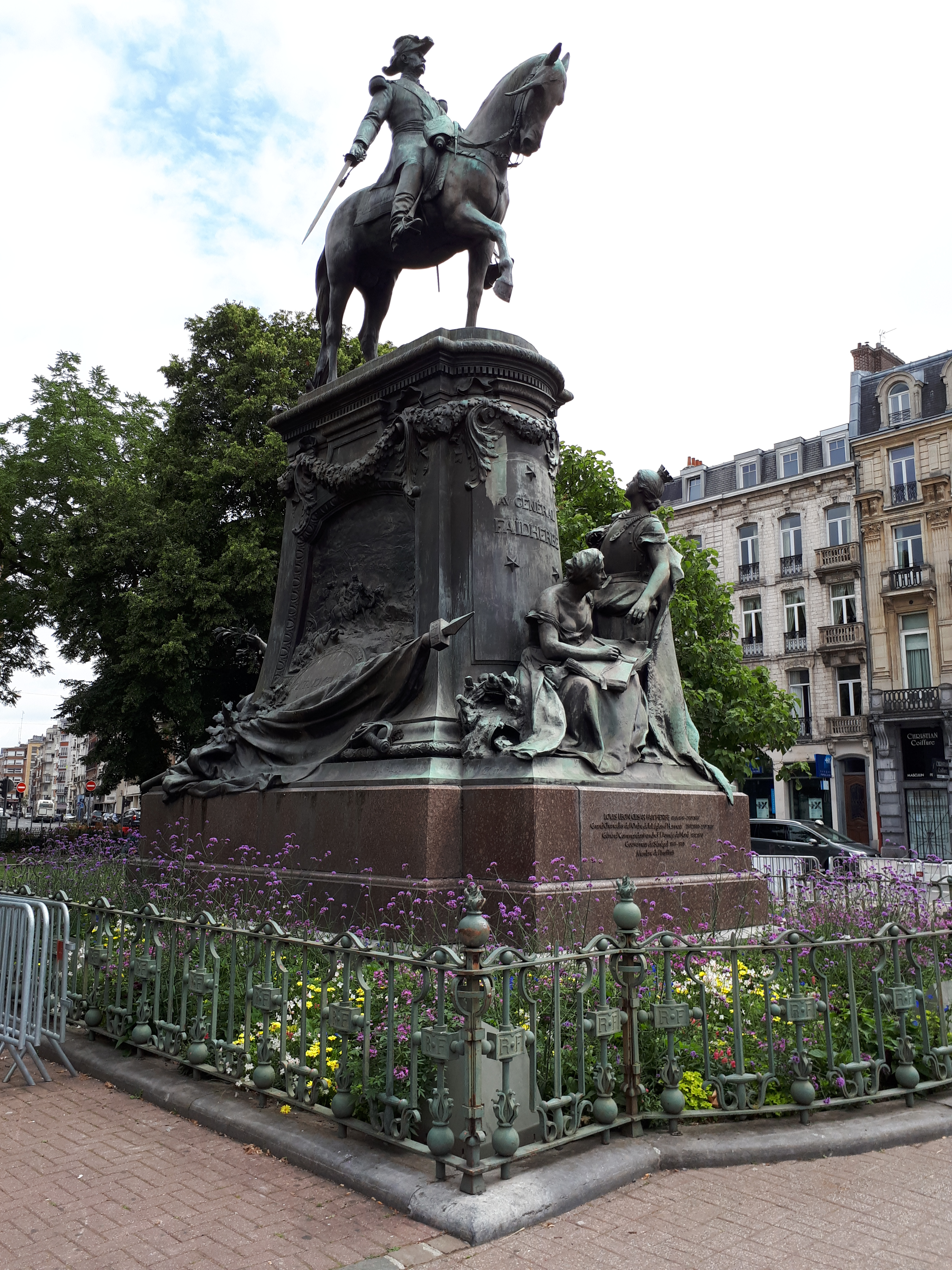 Statue of Louis Leon Cesar Faidherbe in Lille